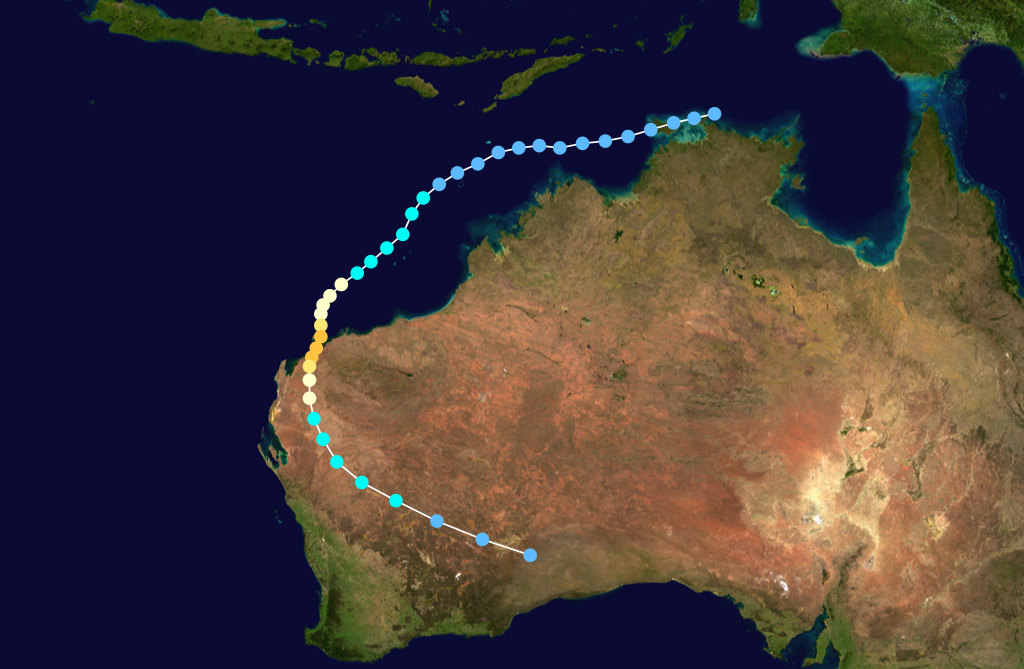 Cyclone Bobby (1995) track. Uses the color scheme from the Saffir-Simpson Hurricane Scale.